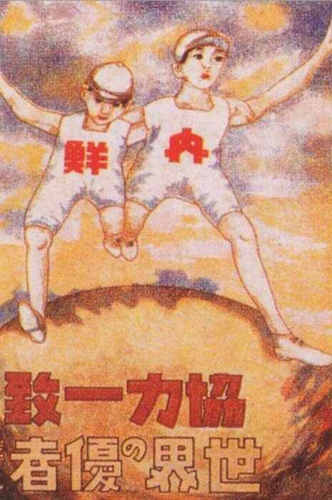 Postcard (according to B.R. Myers: The Cleanest Race) or possibly a poster (according to [1]) published during Japan’s naisen ittai campaign in occupied Korea saying (there written right to left): 内鮮 協力一致 世界の優者 (Japan-Korea. Teamwork and Unity. Champions of the World.)